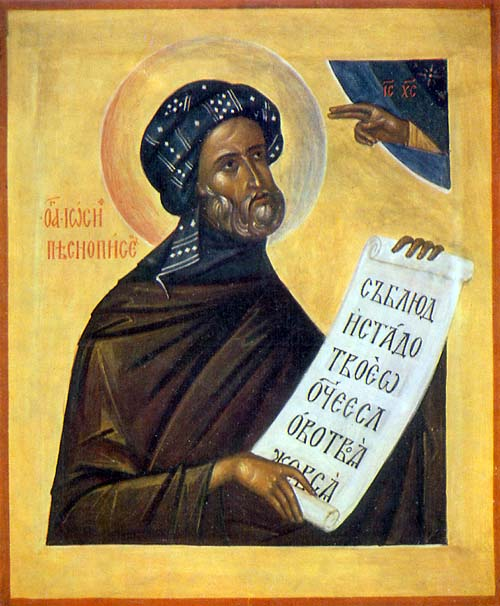 Saint Joseph the Hymnographer, Russian Icon